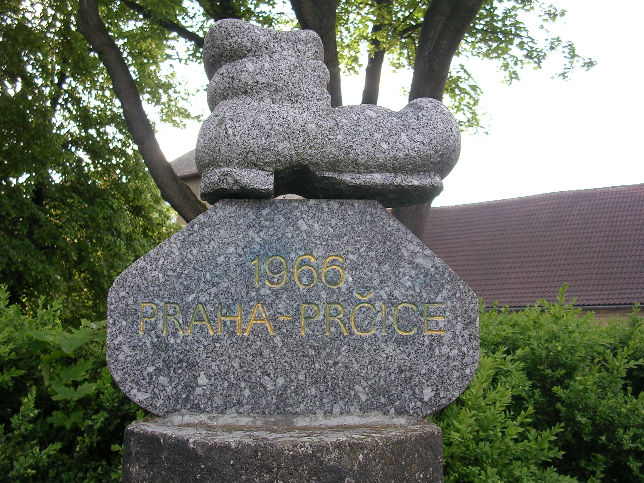 Prčice, Sedlec-Prčice, Příbram District, Central Bohemian Region, the Czech Republic.